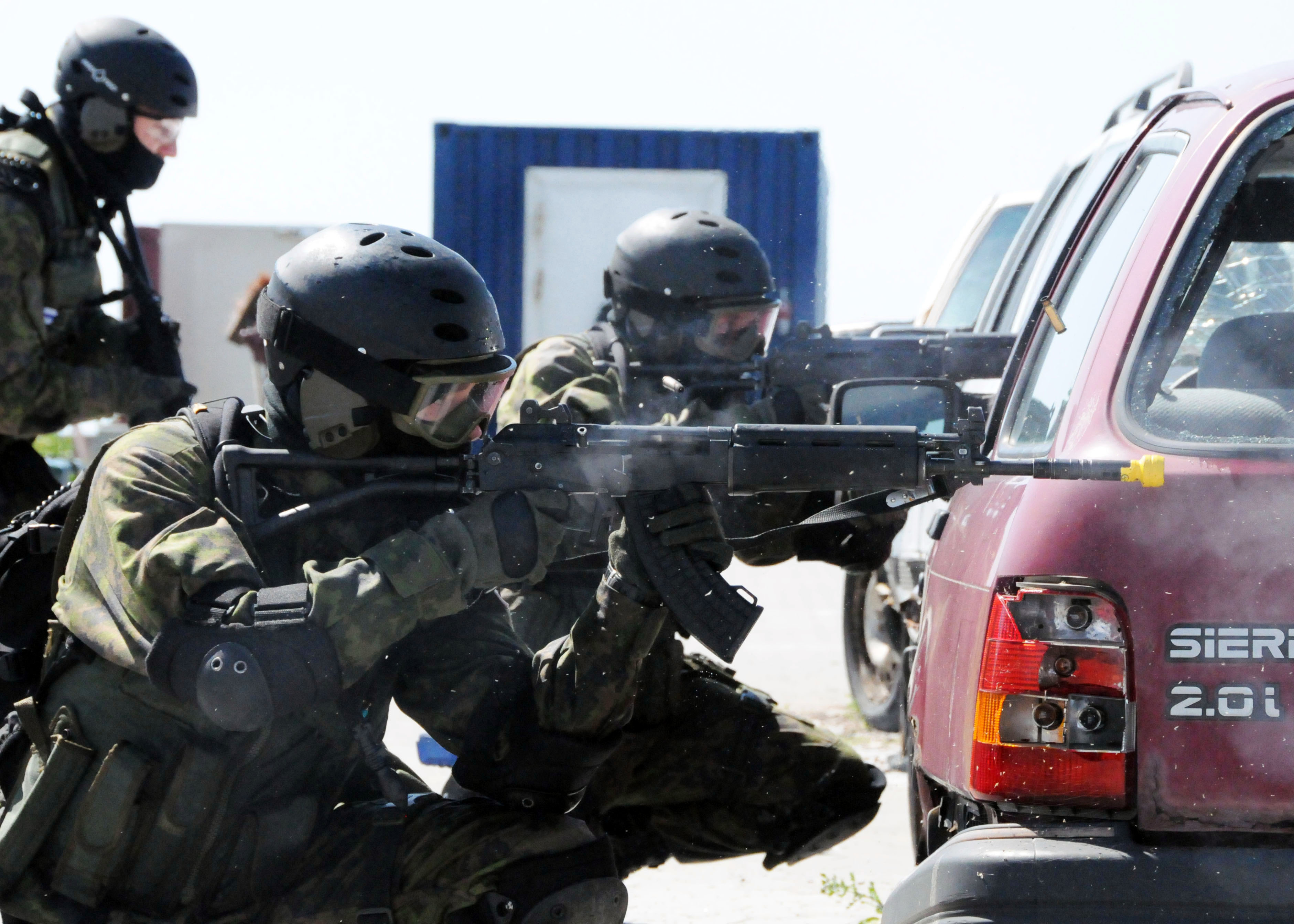 KARLSKRONA, Sweden (June 15, 2009) Finnish Navy boarding team members Cpl. Petri Linna, left, and Sgt. Joonas Moinaneu lay down suppressing fire while their team members move forward during a disaster training exercise at a naval base in Karlskrona, Sweden during exercise Baltic Operations (BALTOPS) 2009. This is the 37th iteration of BALTOPS, a multinational exercise intended to improve interoperability with partner countries by conducting realistic training among the 12 participating nations. (U.S. Navy photo by Mass Communication Specialist 1st Class Gary Keen/Released)